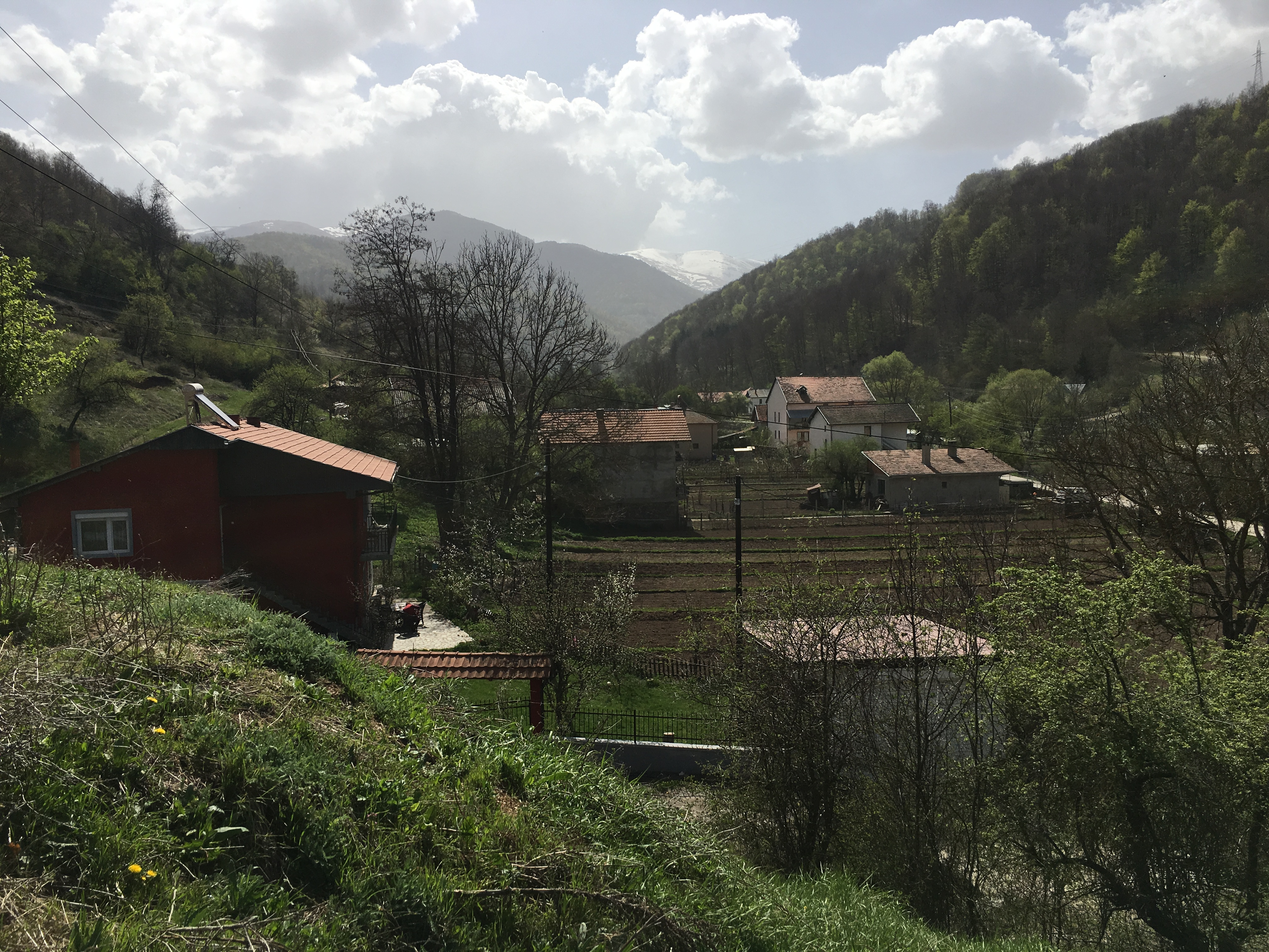 A view of the village of Uzem